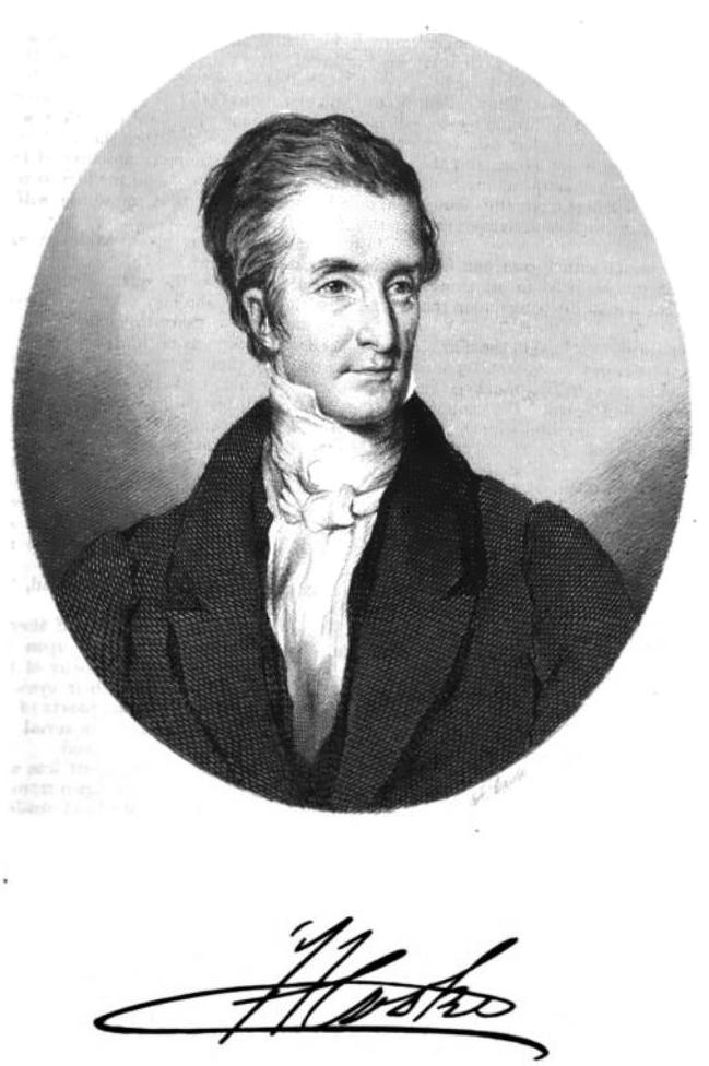 Portrait and signature of Henry Cooke.